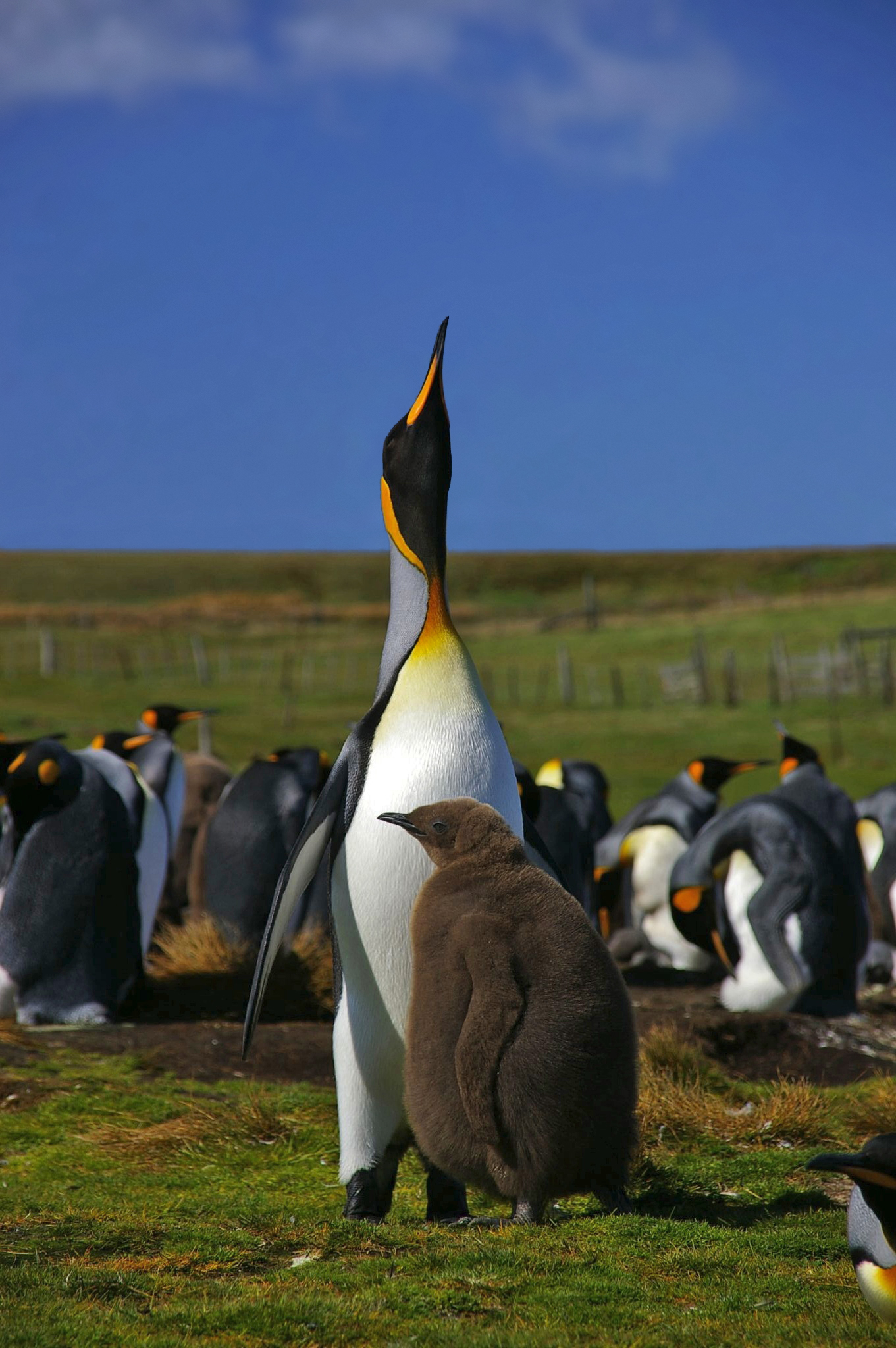 King Penguins (Aptenodytes patagonicus patagonicus), West Falkland